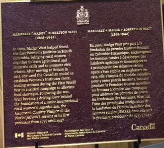 In August, 2015, the British Columbia Women's Institutes honoured Madge Watt's contributions to their organization by unveiling a plaque in Colwood, B.C.